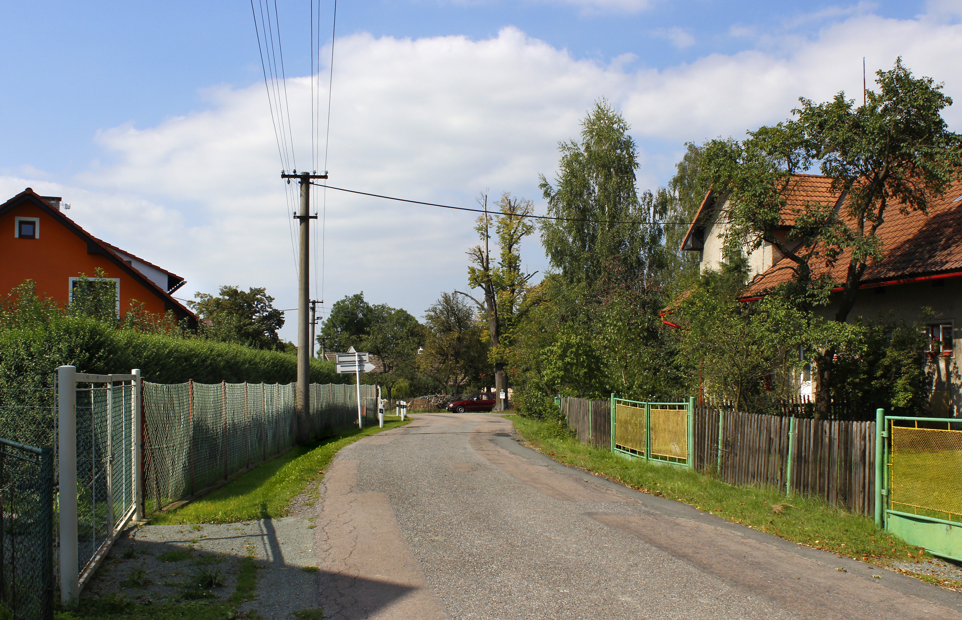 Hraštice, part of Skuhrov nad Bělou village, Czech Republic; road to Bílý Újezd